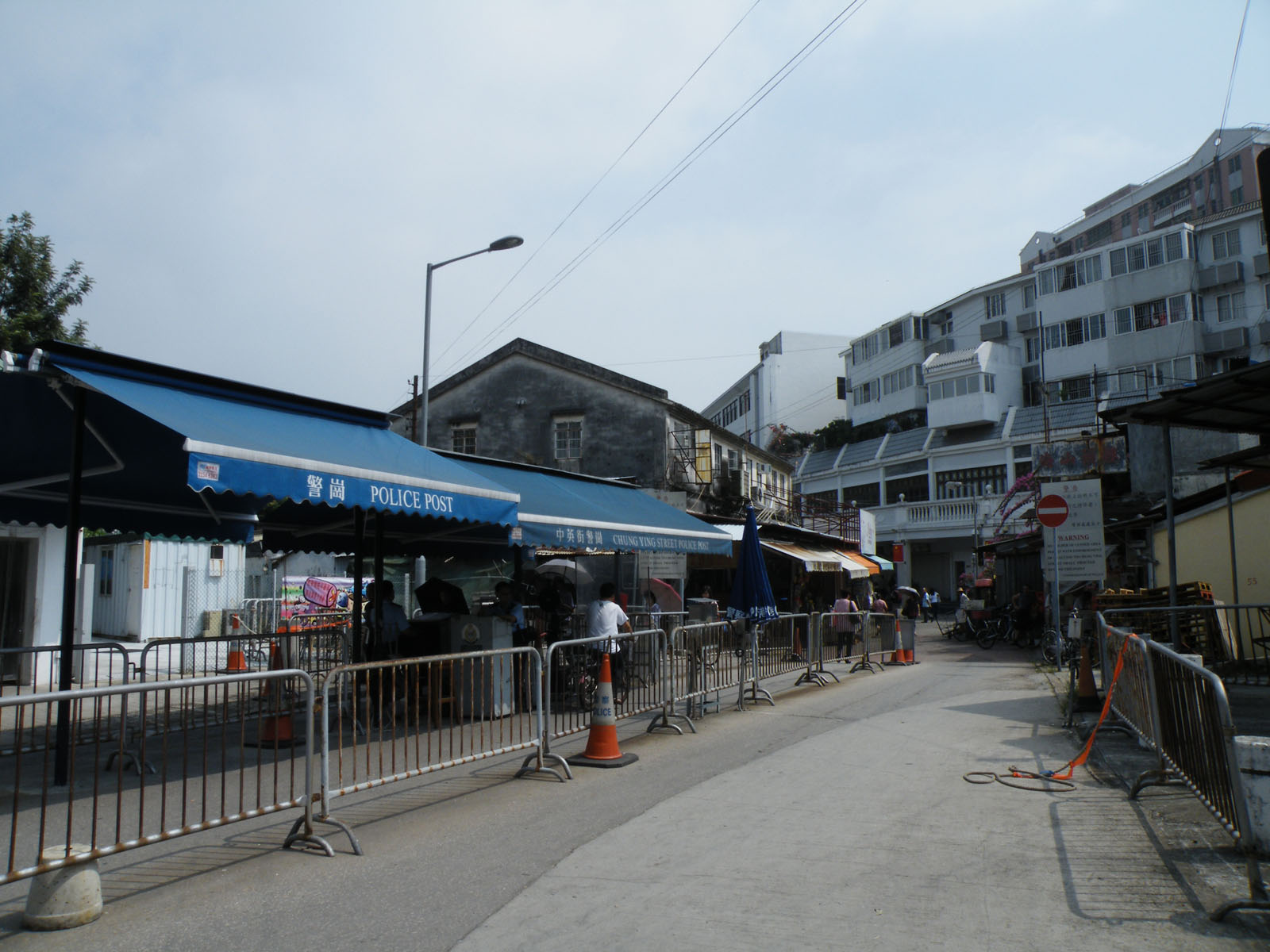 Police Post in Chung Ying Road